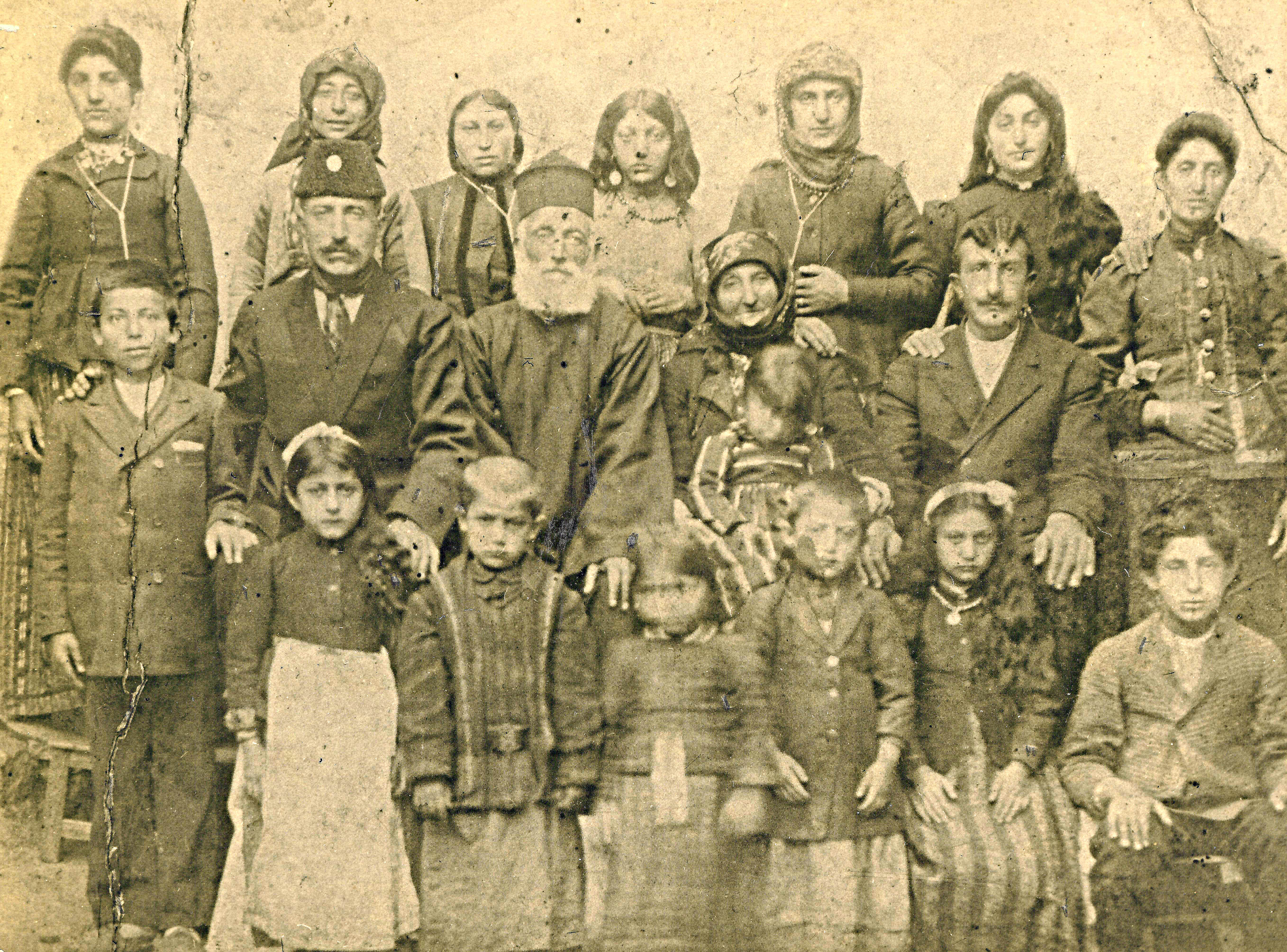 Hovhannès kahana, (married) priest of the village of Hazari, surrounded by family members. Hazari (Հազարի), is located near the city of Tchimichgadzak (Չմշկածագ), now Çemişgezek. Collection of Vazken Andréassian